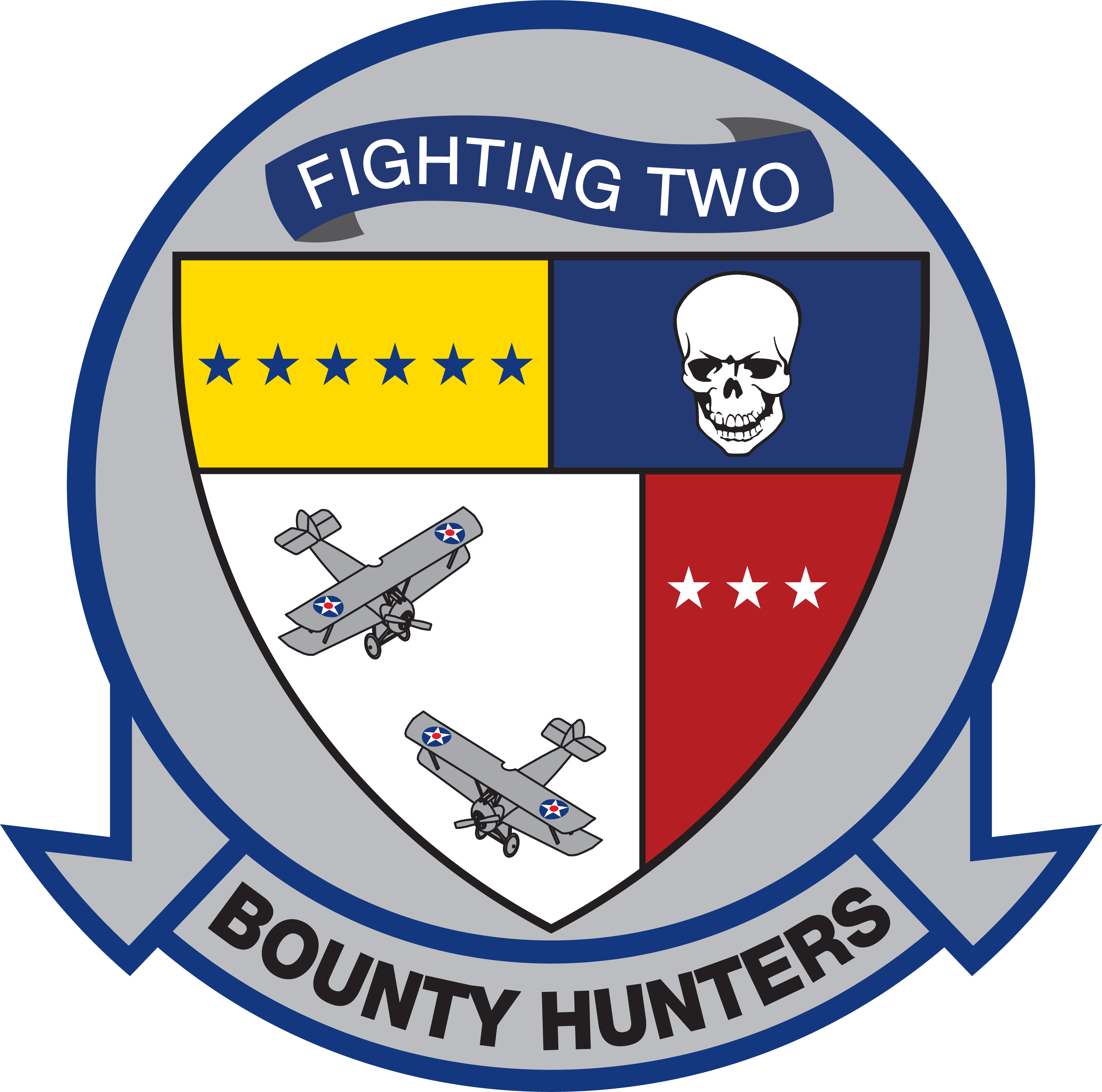 Insignia of the U.S. Navy Fighter Squadron/Strike Fighter Squadron 2 (VF-2/VFA-2) "Bounty Hunters". The insignia was approved on 4 June 1973.